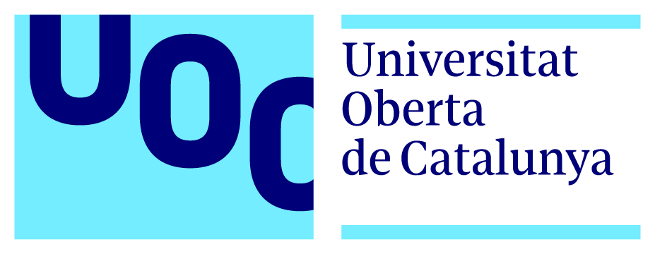 Open University of Catalonia (Universitat Oberta de Catalunya, UOC) logo